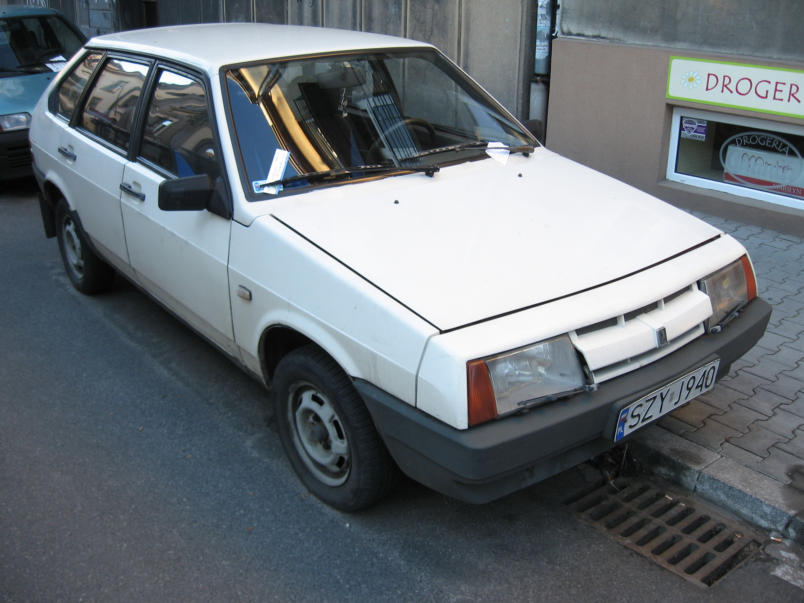 Lada Samara 2109 car in Kraków, Poland.